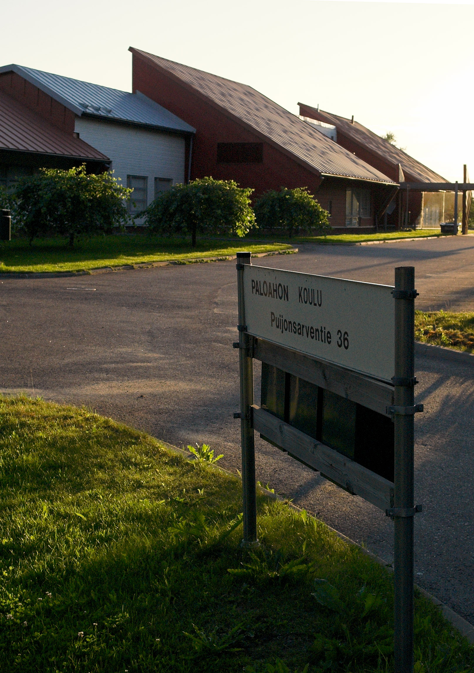 Paloaho school in Julkula, Kuopio, Finland. Classes 1–6.